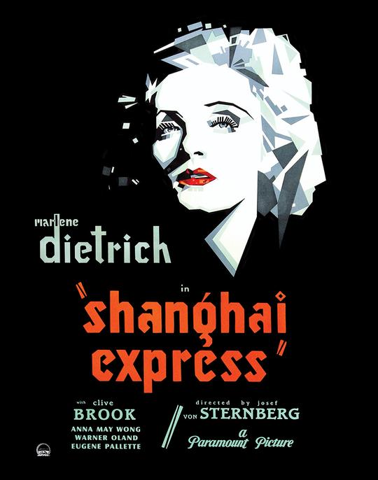 Original one-sheet art for Shanghai Express